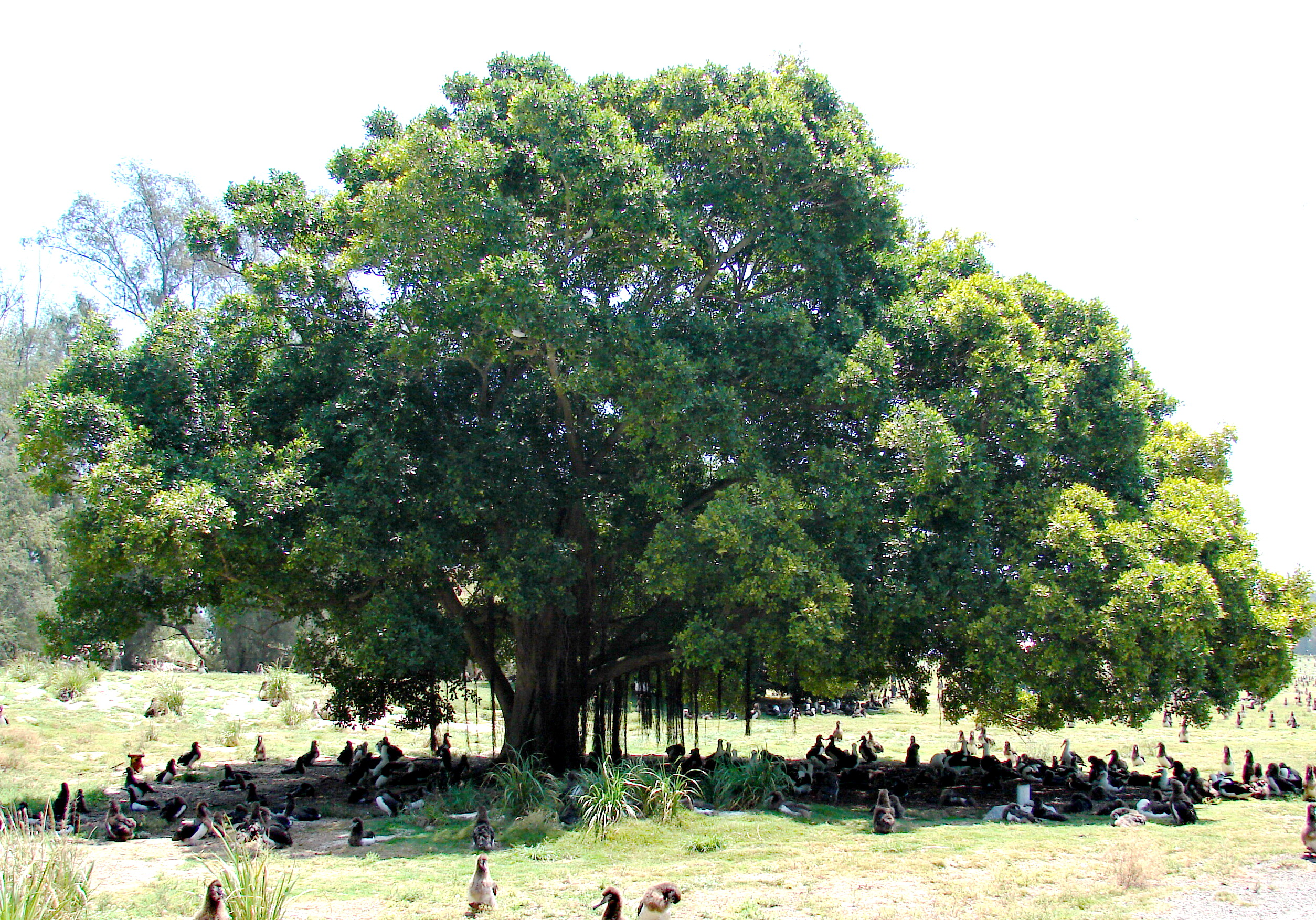 Ficus microcarpa (habit with Laysan albatross). Location: Midway Atoll, Commodore Ave across from barracks Sand Island